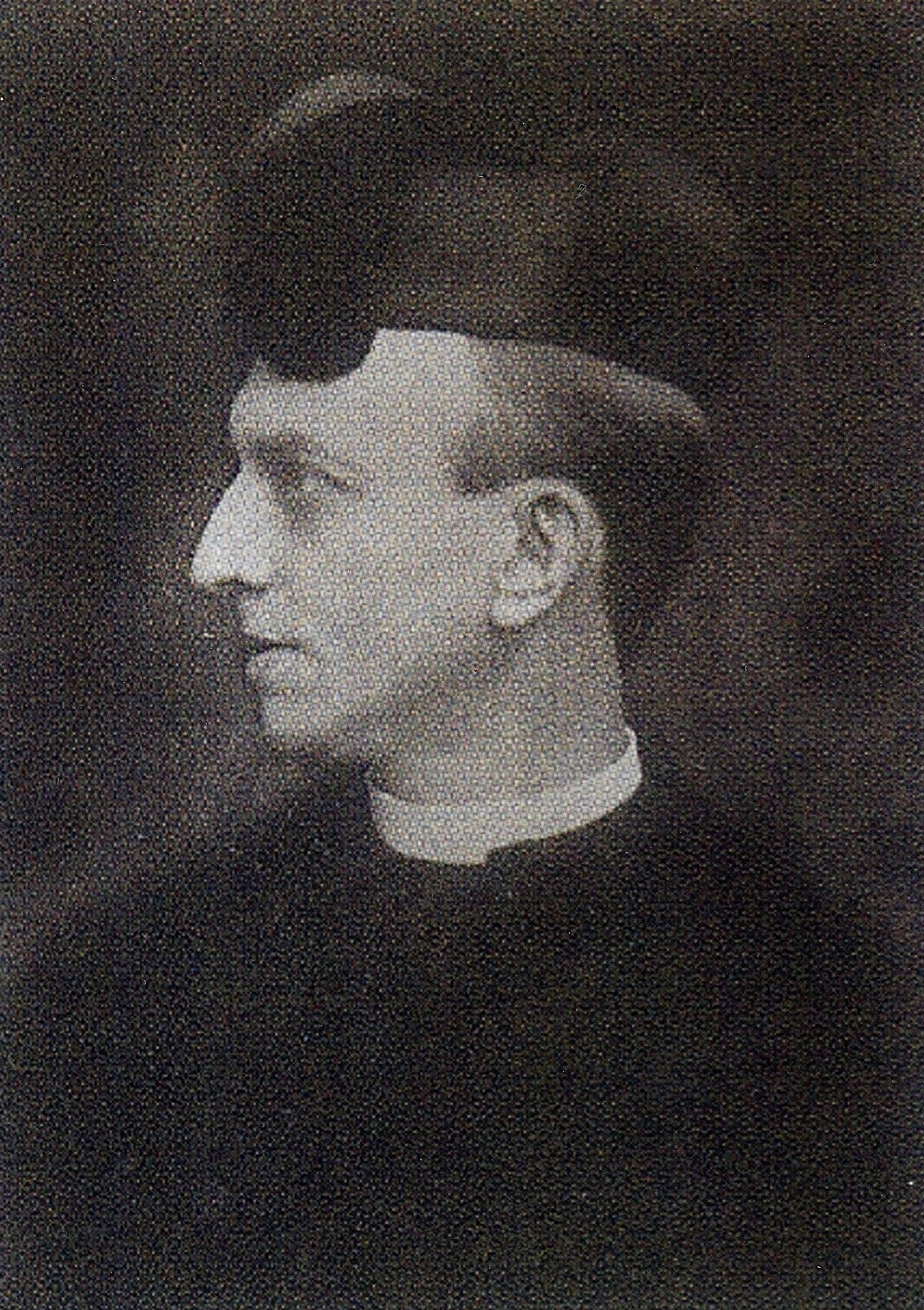 Father Francis Xavier Lasance